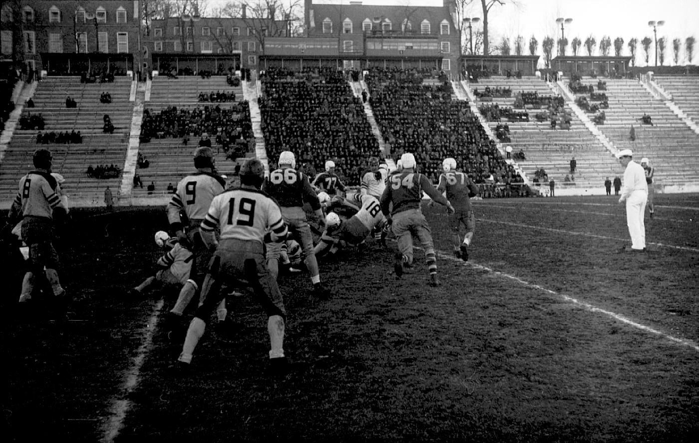 Football game between the Montreal Indians and the Toronto Argonauts at McGill University's Molson Stadium in Montreal, Canada.